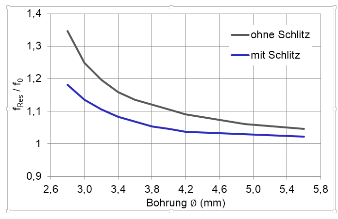 NeoTAG in hole